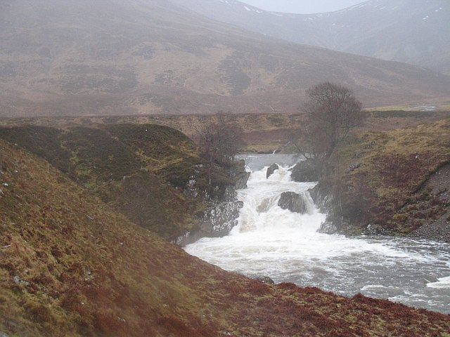 Falls of Roy The Roy, now combined with the large Burn of Agie falls over the last rock step before a long relatively gentle stretch down to Braeroy. View in low water 1930452